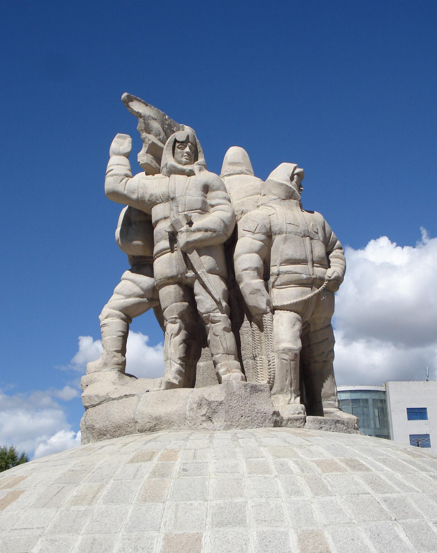 Tibet, Lhasa. Sculpture "Pole explorers". FOP